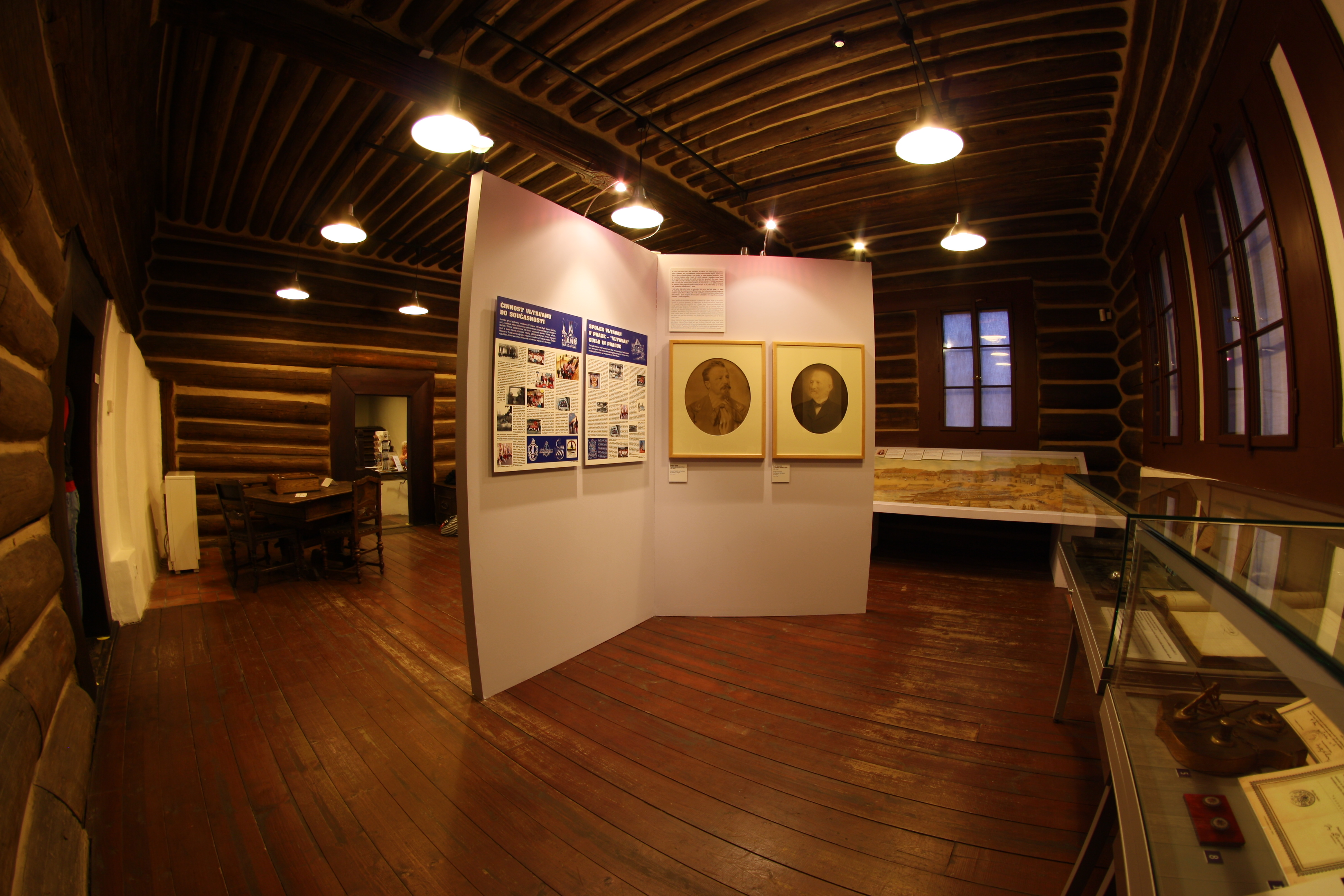 Large room of Vltavan Group Exhibition in Podskalí Custom House.